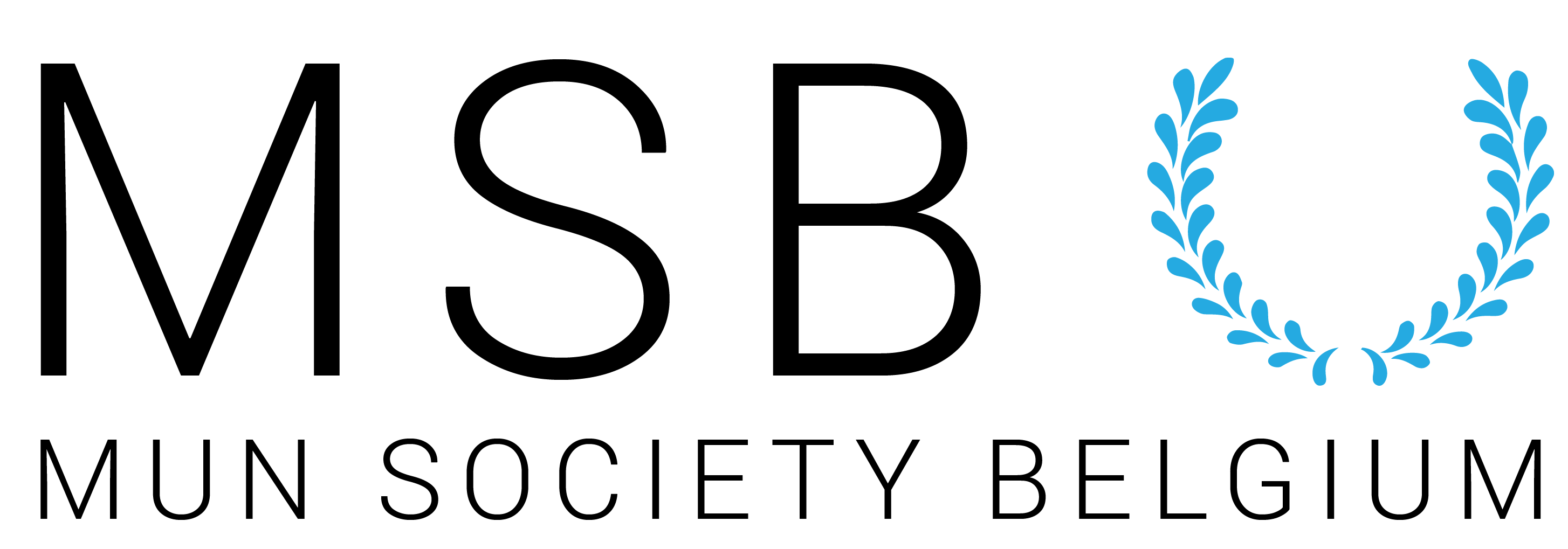 The logo of MUN Society Belgium since June 2015, png format